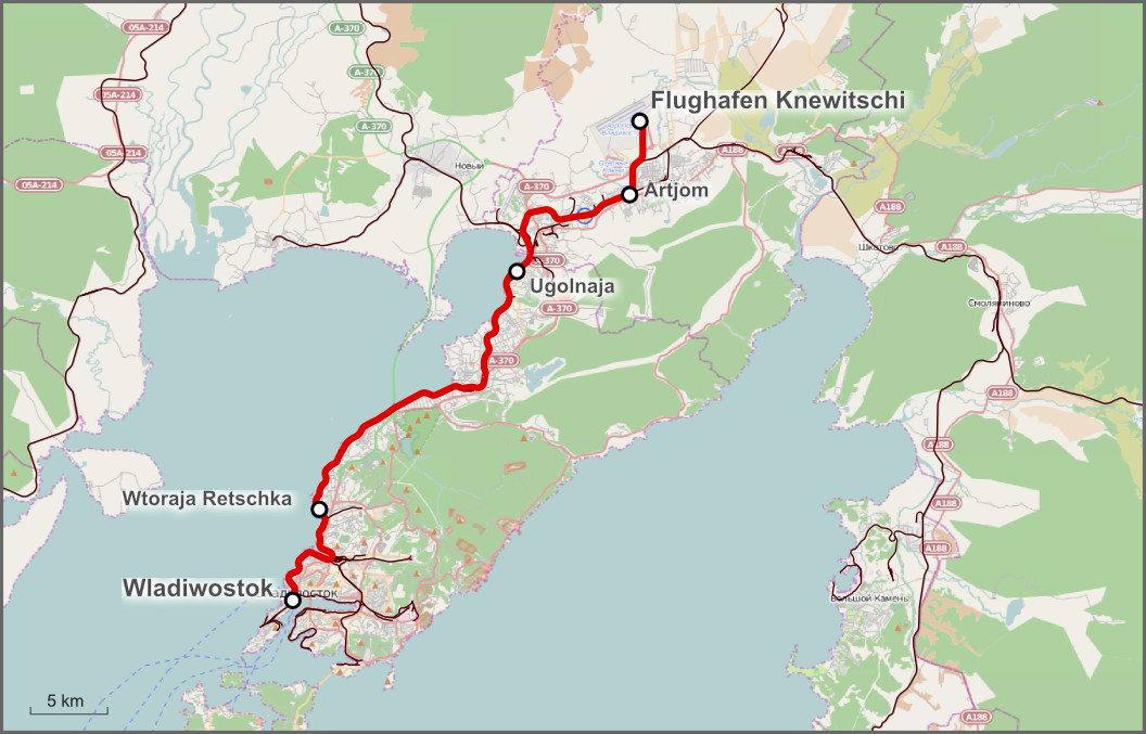 Aeroexpress trains routes in Vladivostok region